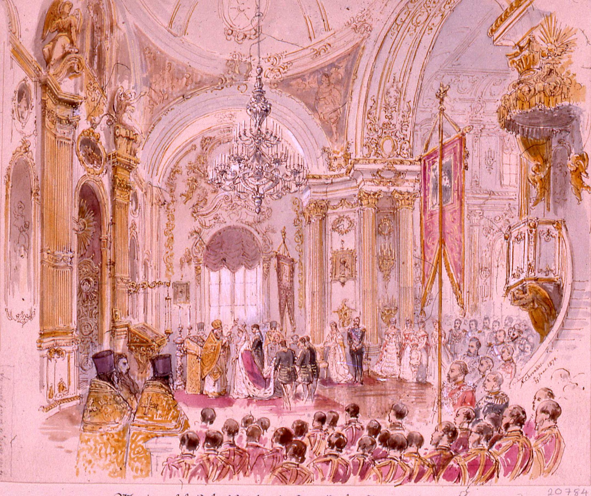 Marriage of Alfred, Duke of Edinburgh and the Grand Duchess Marie Alexandrovna of Russia, St Petersburg, 23 January 1874: The Russian Orthodox Ceremony